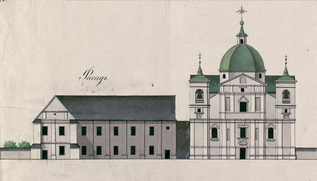 Catholic church and Monastery of Bernardine in Hłusk